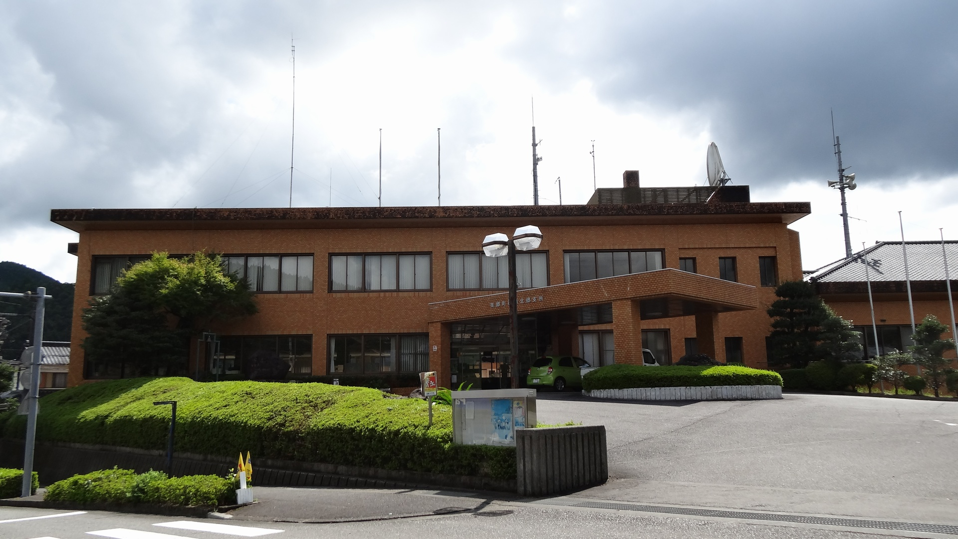 Misato Town Kitagō Branch (Miyazaki, Japan)